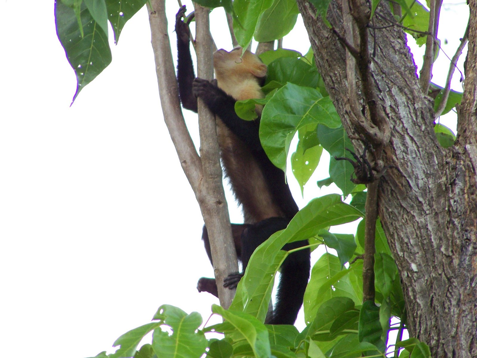 White-faced capuchin monkey in Manuel Antonio National Park in Costa Rica